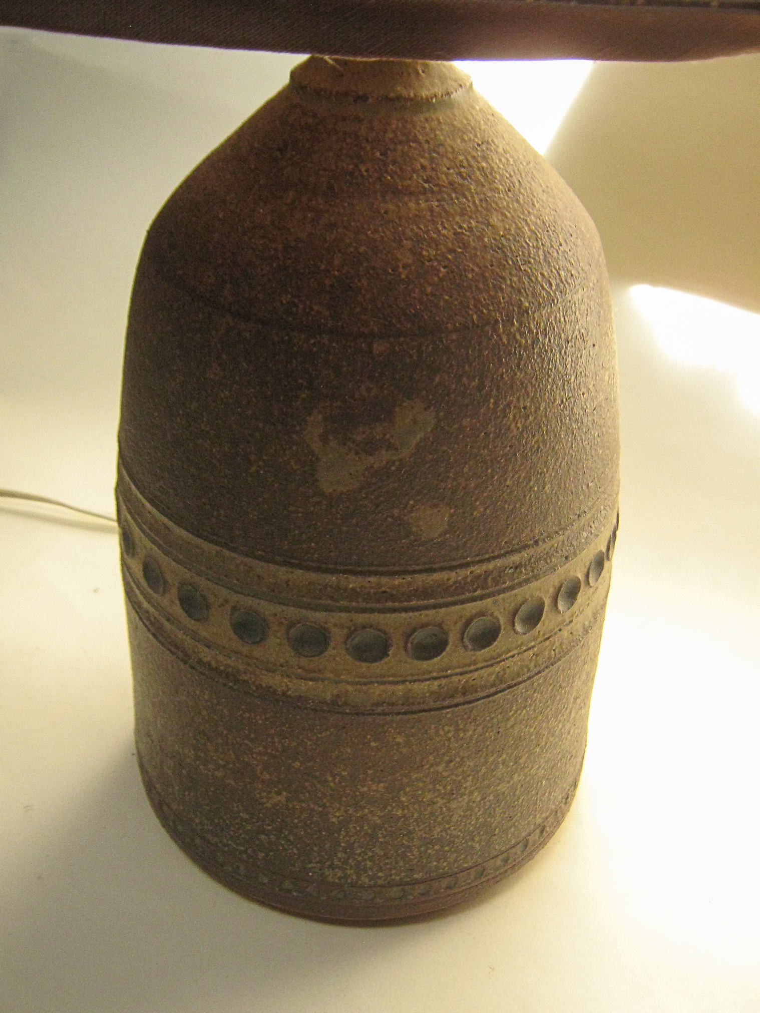 Pottery lamp base with shade by Ian Sprague 1970s; photographed in a private collection at Enfield Victoria